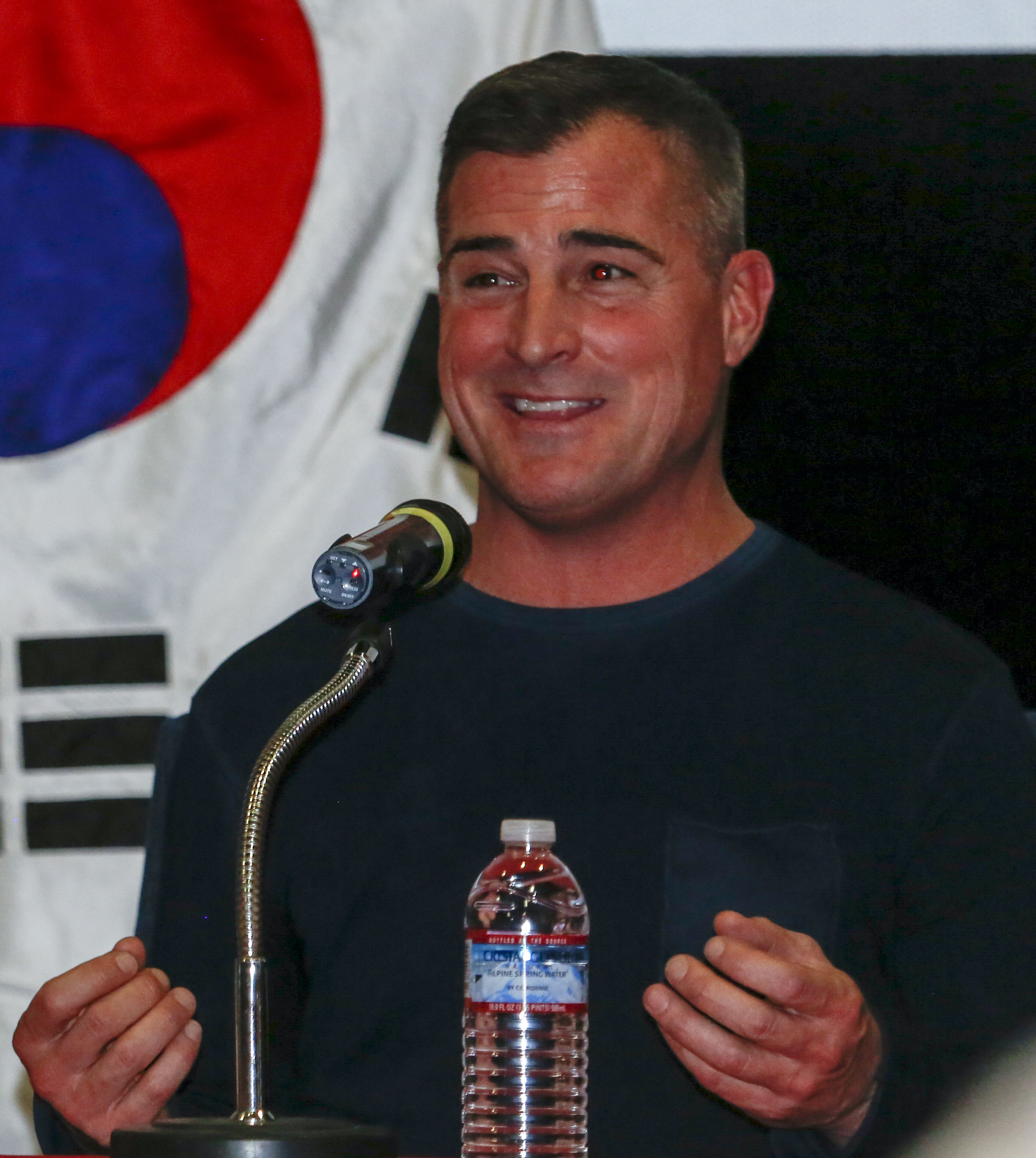 Actor George Eads visited service members, civilians and family members at the movie theater at USAG-Yongsan during a meet-and-greet Jan. 9.